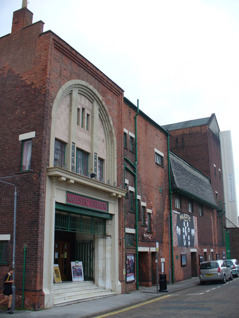 Majestic Theatre, Retford This large red brick theatre looks as though it has seen more majestic days. The advertisements for coming acts were for bands.